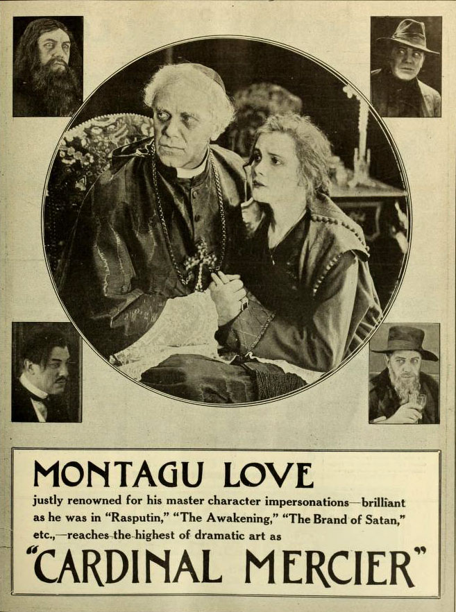 Advertisement in Moving Picture World, Dec 1917 for the American film The Cross Bearer (1918) under its working title Cardinal Mercier.